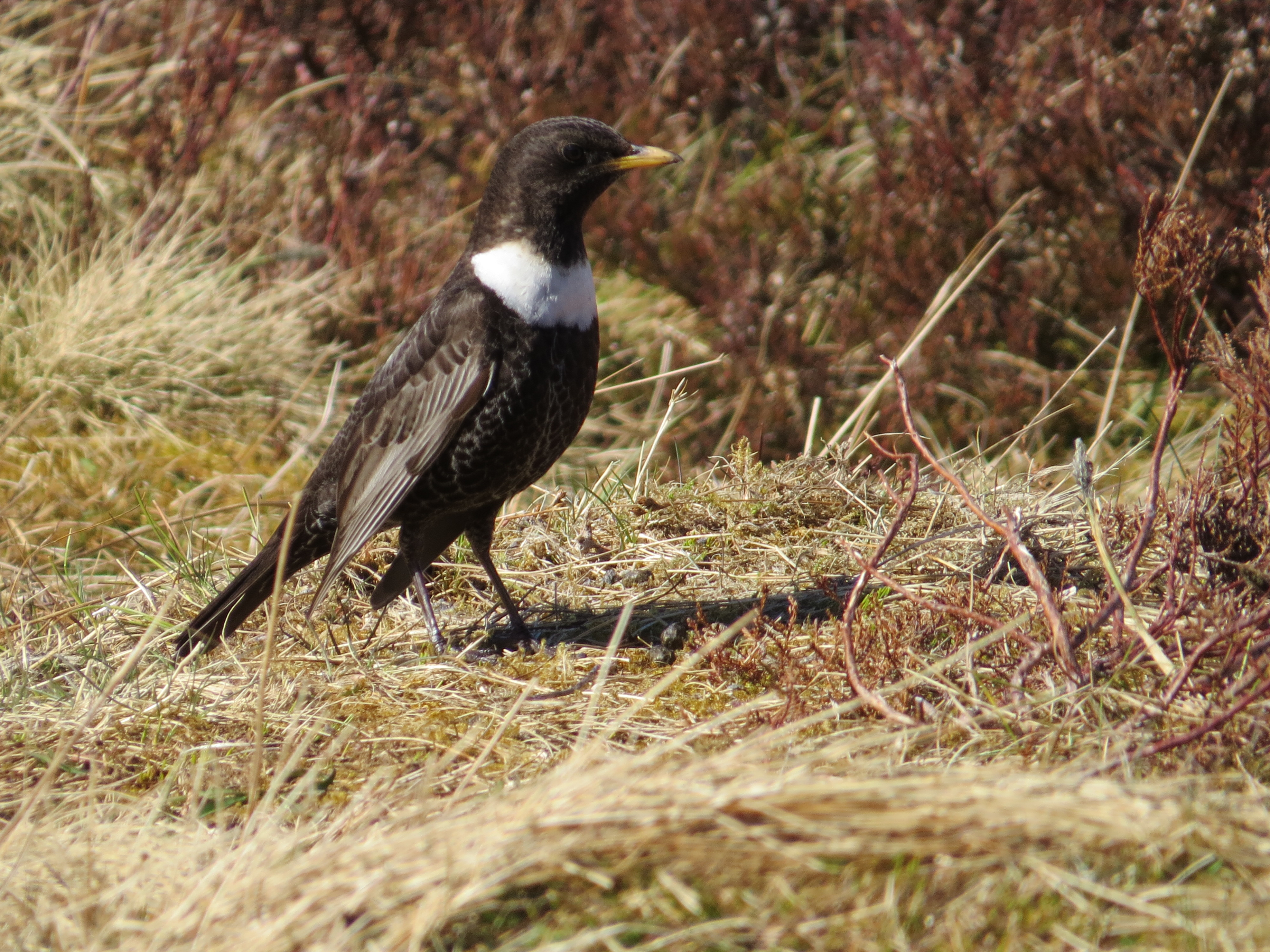 Ring Ouzel Turdus torquatus torquatus, male, at 635 m on Cairngorm, Scotland